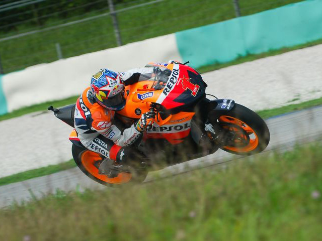 American MotoGP rider Nicky Hayden powers his Honda during MotoGP pre-season test session at Sepang International Circuit outside Kuala Lumpur January 22, 2007. Rashidi Saleh@jaggat (MALAYSIA)